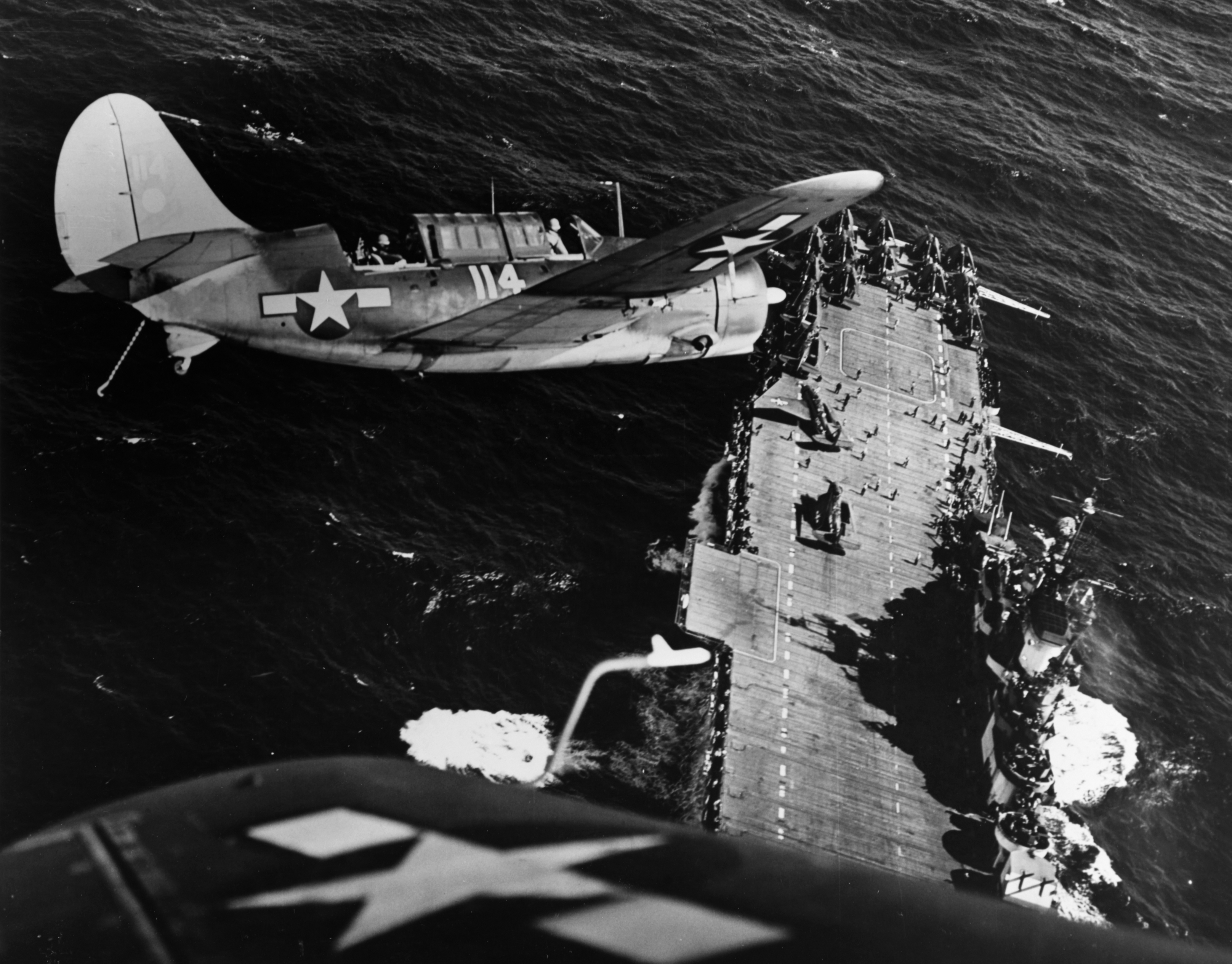 Two U.S. Navy Curtiss SB2C-3 Helldiver aircraft from Bombing Squadron 11 (VB-11) bank over the aircraft carrier USS Hornet (CV-12) before landing, following strikes on Japanese shipping in the China Sea, circa mid-January 1945.